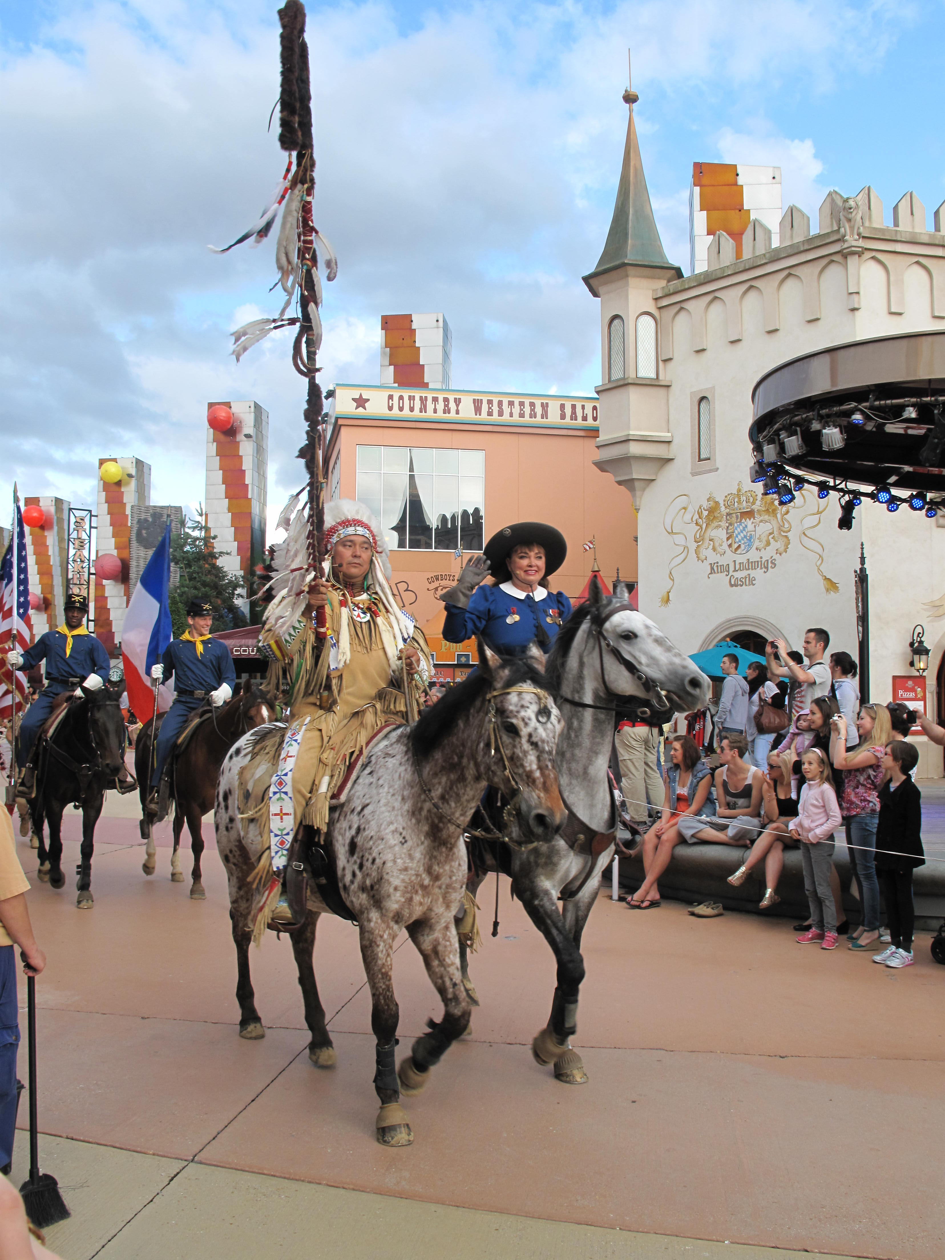 Parade at 6pm in Disney Village of Disneyland Paris.